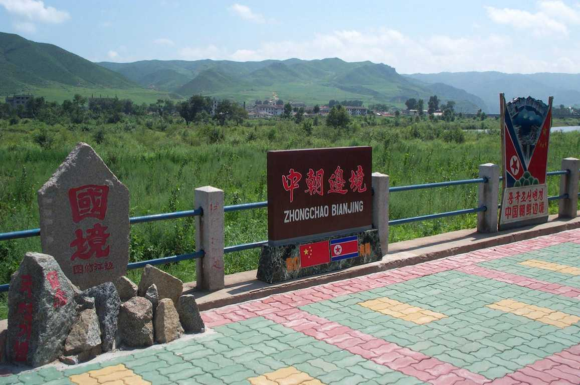 Board between China and North Korea